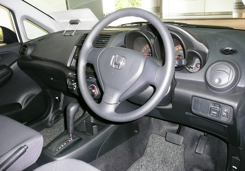 Honda Partner interior.